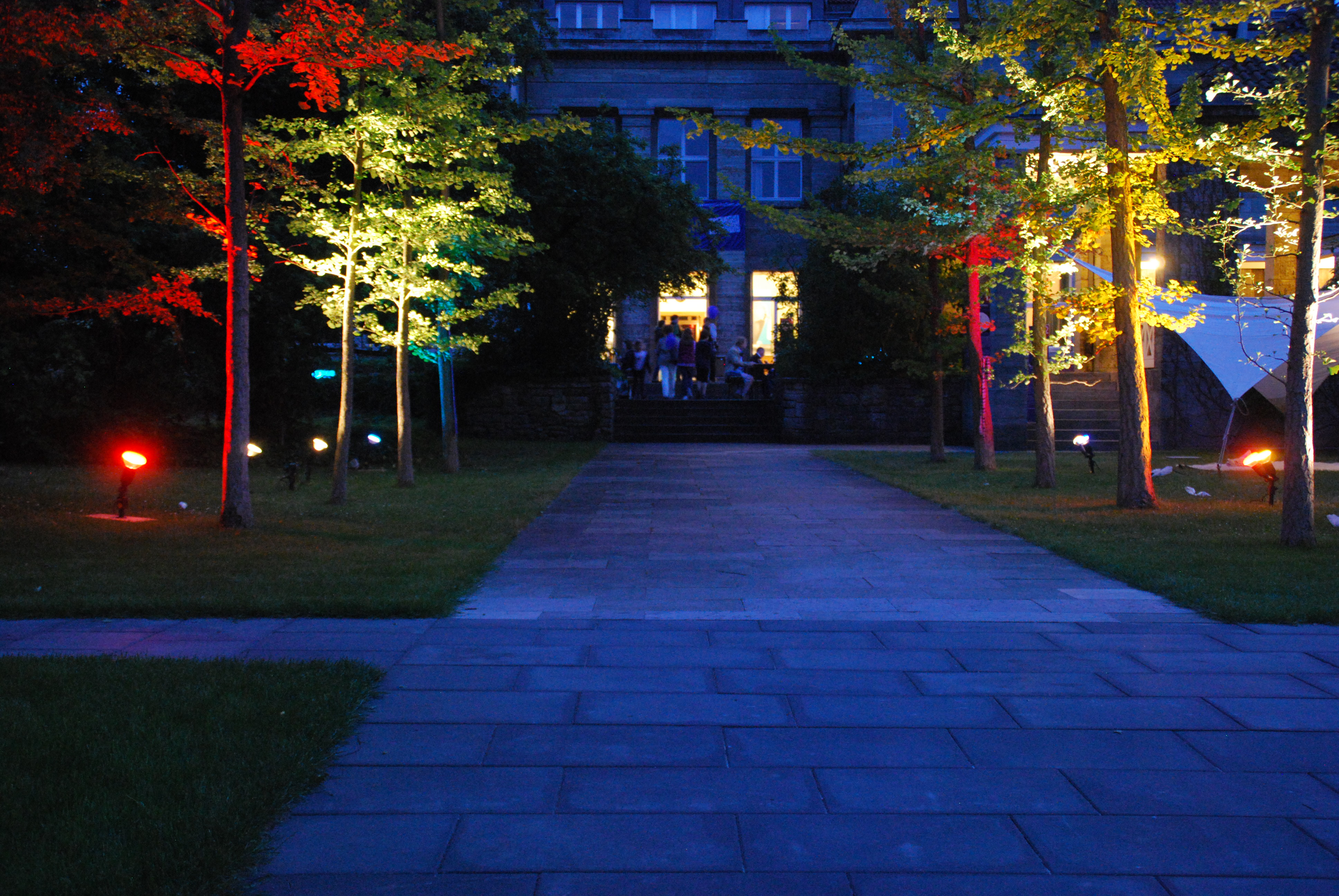 Lange Nacht der Wissenschaften DAI Berlin June 2012